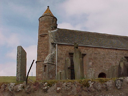 Arbuthnot Church. It contains a tomb, the top of which is said to be the stone effigy of Hugo ("le Blond") Arbuthnott.